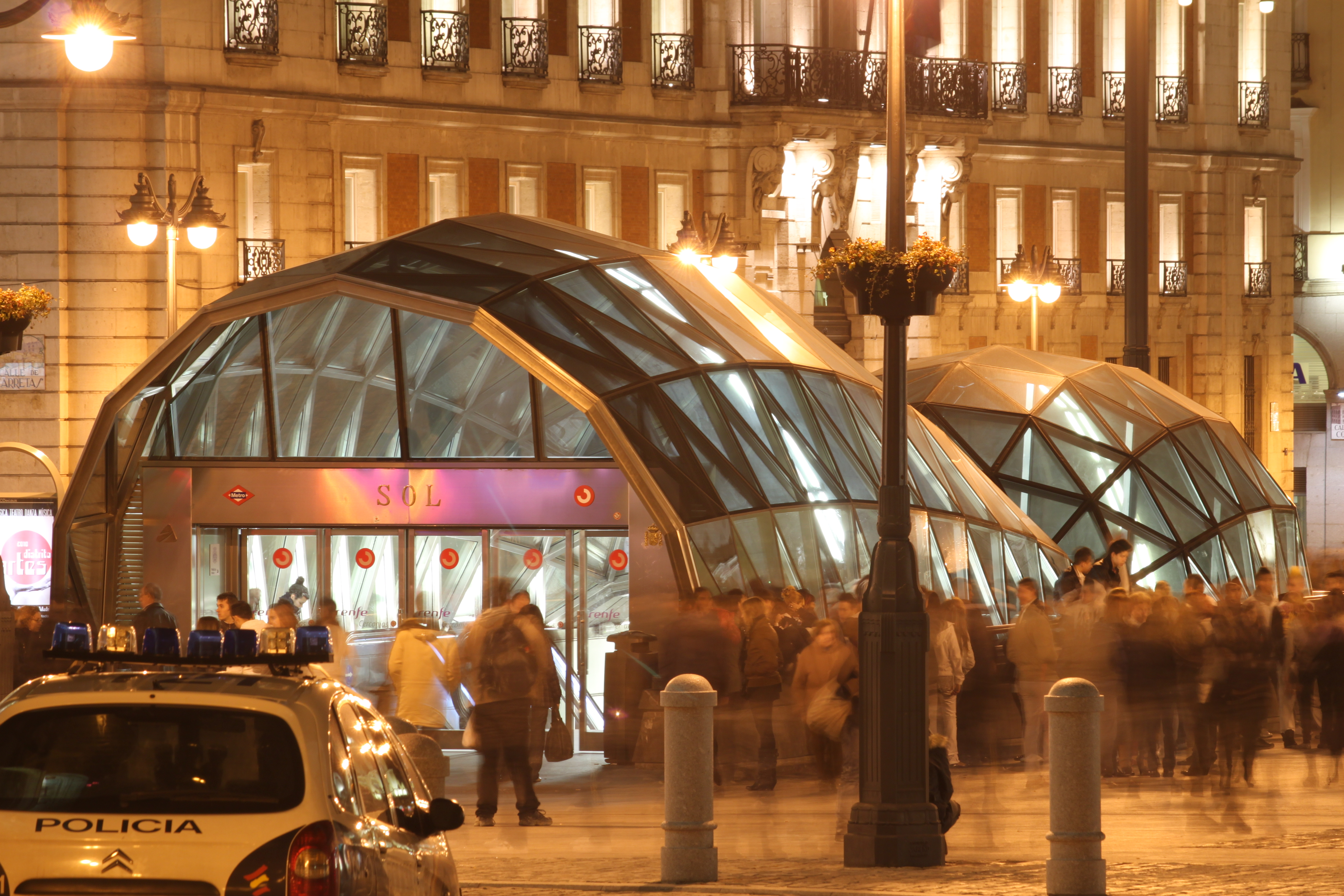 New entrance of Sol metro station, at Puerta del Sol (square) in Madrid (Spain).